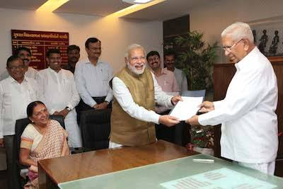 Shri Narendra Modi hands over his resignation as Maninagar MLA to the Speaker of the Gujarat Vidhan Sabha